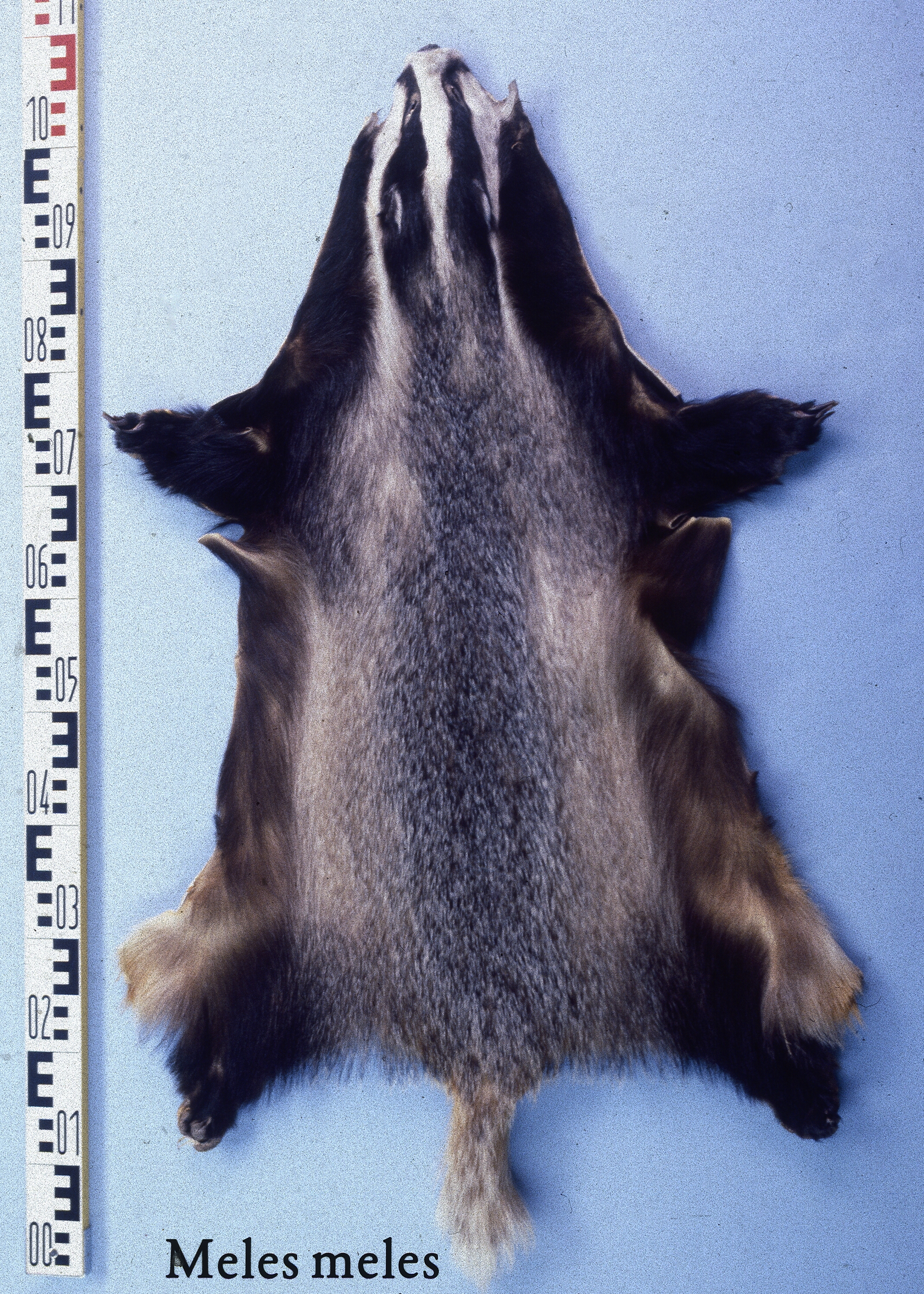 Eurasian Badger fur skin (Meles meles). Fur skin collection, Bundes-Pelzfachschule, Frankfurt/Main, Germany